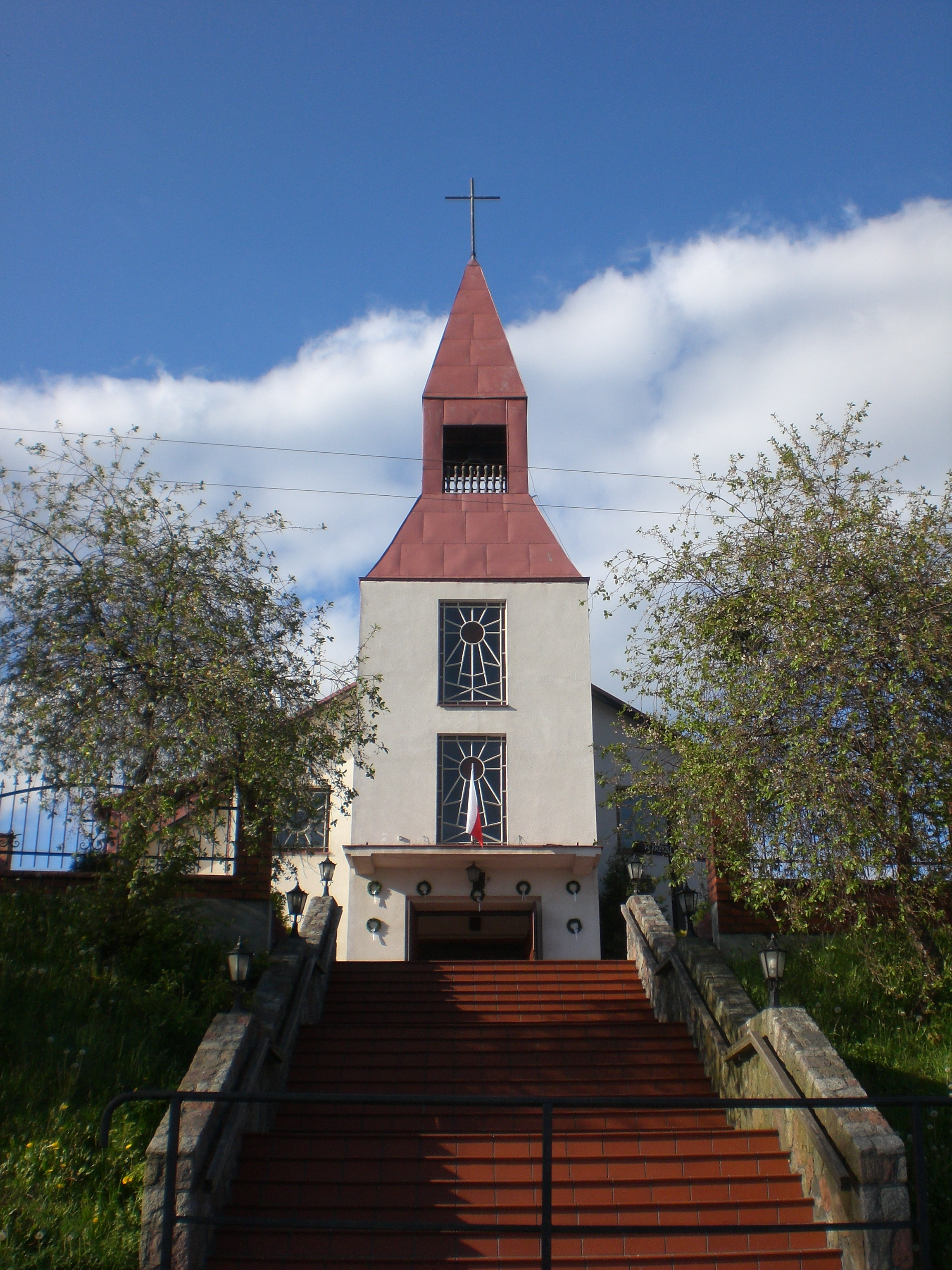 Prokowo - church